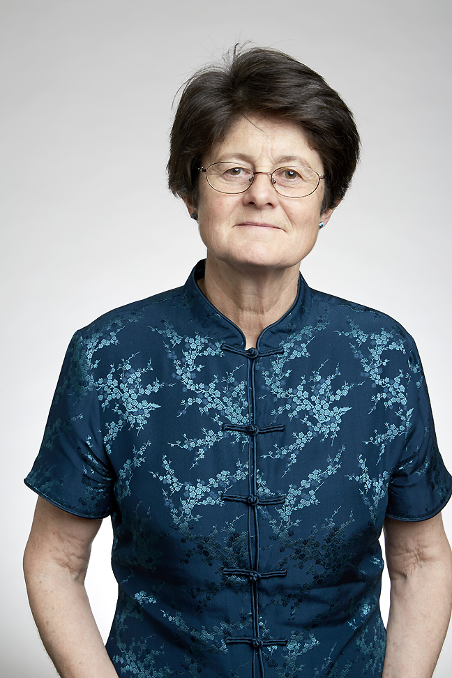 Josphine M. Pemberton is a professor of molecular ecology at the University of Edinburgh. Attribution: The Royal Society